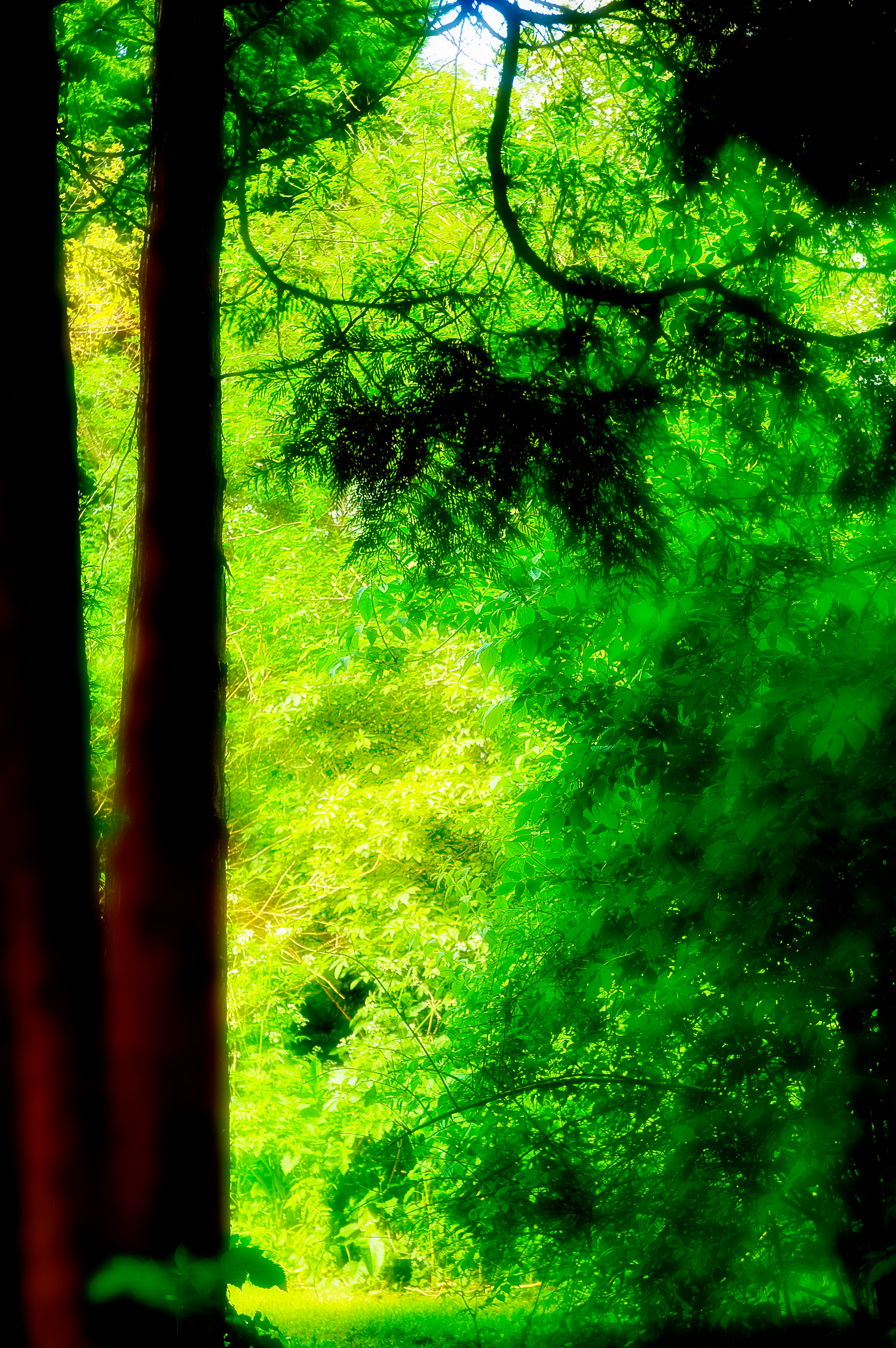 Taken in Peasholm Park in Scarborough. Become a fan on facebook